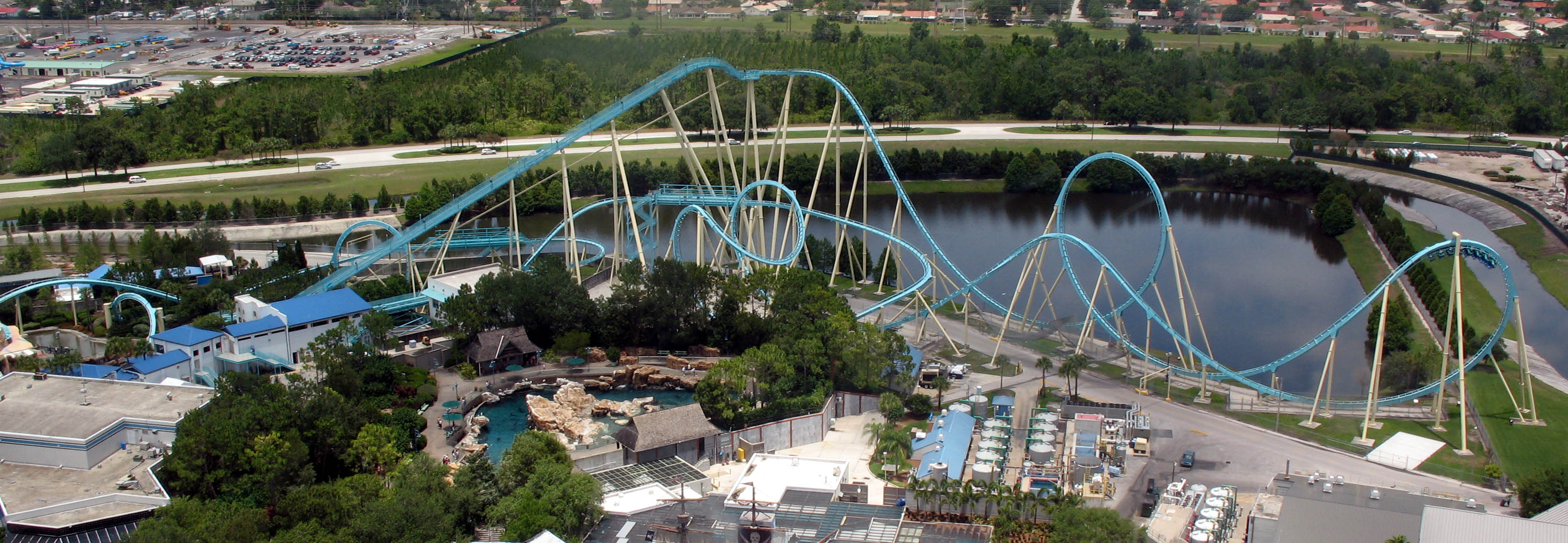 Kraken at SeaWorld Orlando. Taken June 2007 from the Sky Tower